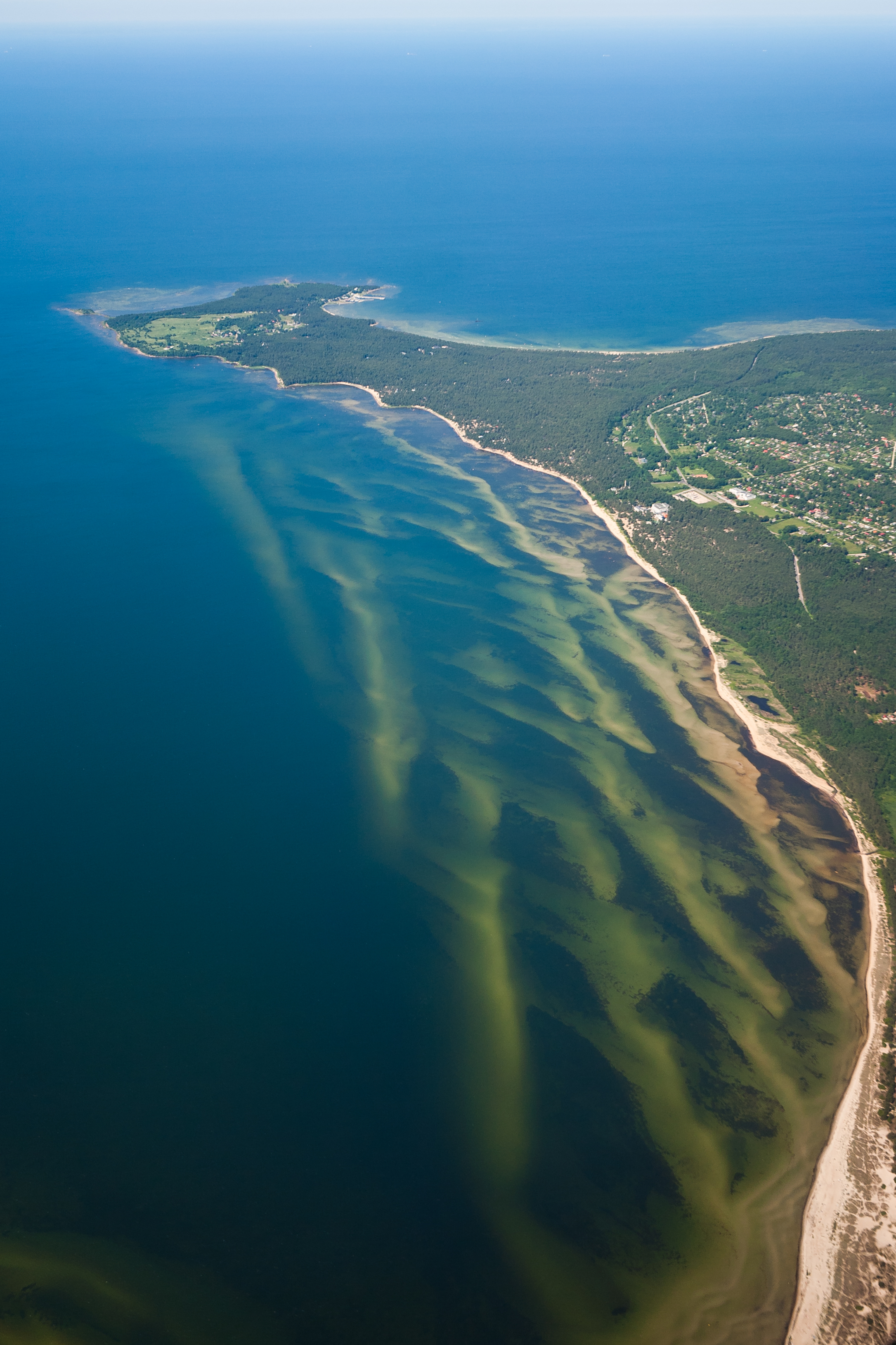 Alga, the coast of Estonia. Laulasmaa village.